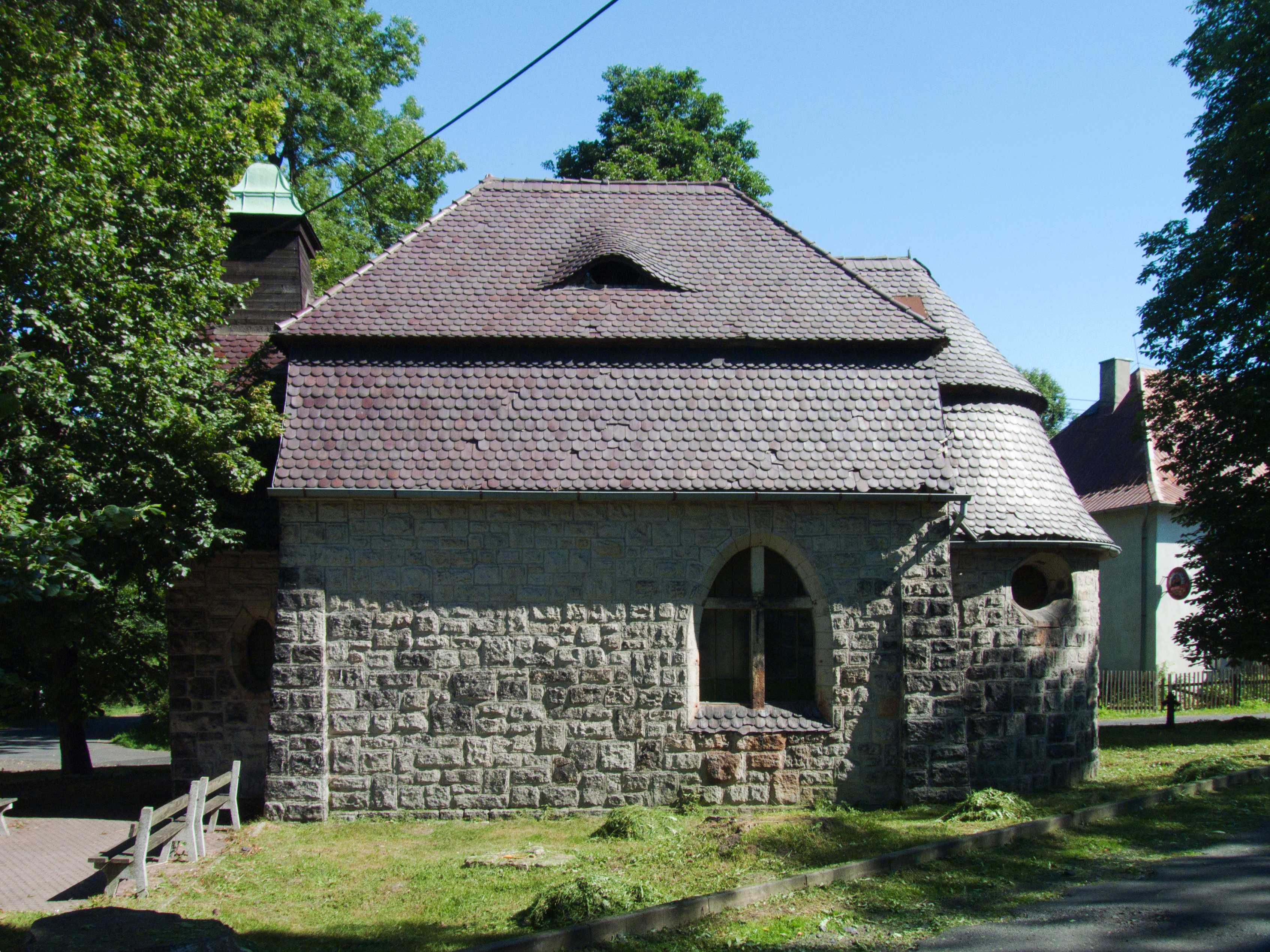 Chapel in the village of Sněžník, part of the town of Jílové, Děčín District, Czech Republic